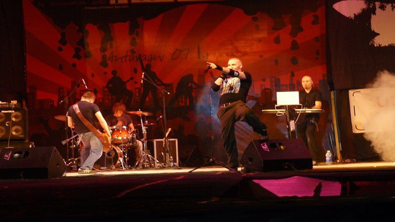 Rock Festival Headliner